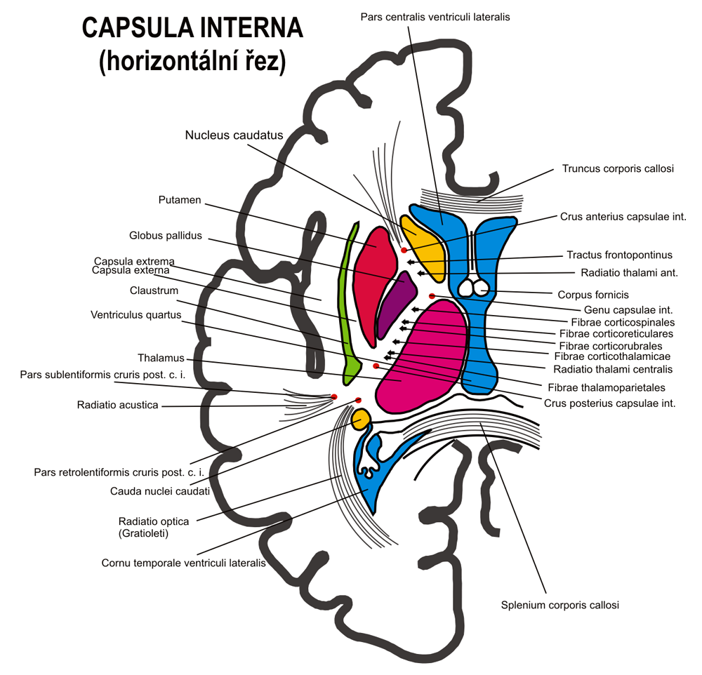 Capsula interna